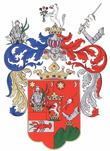 Coat of arms of county of Kingdom of Hungary